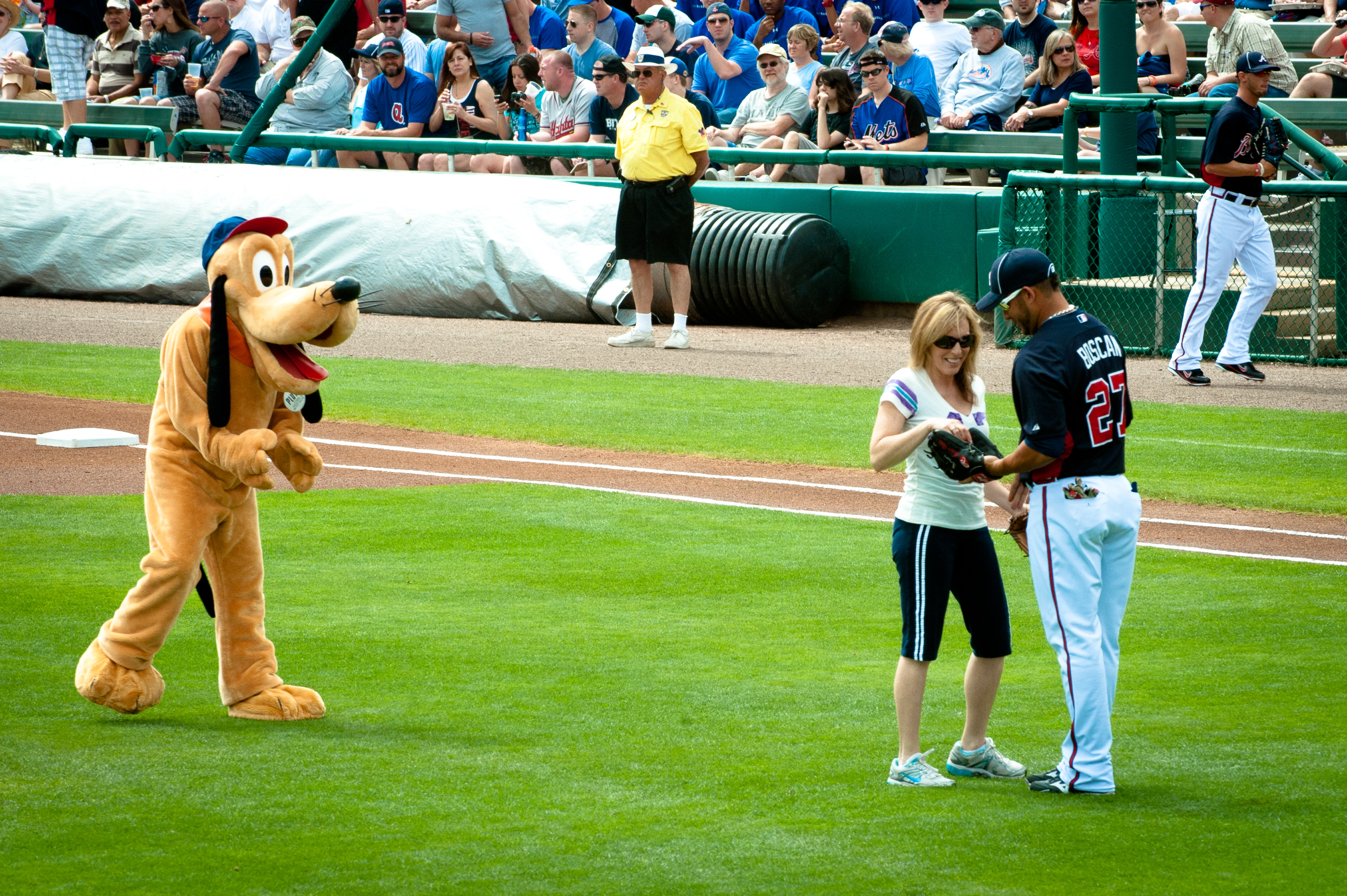 Mets vs Braves - ESPN Wide World of Sports